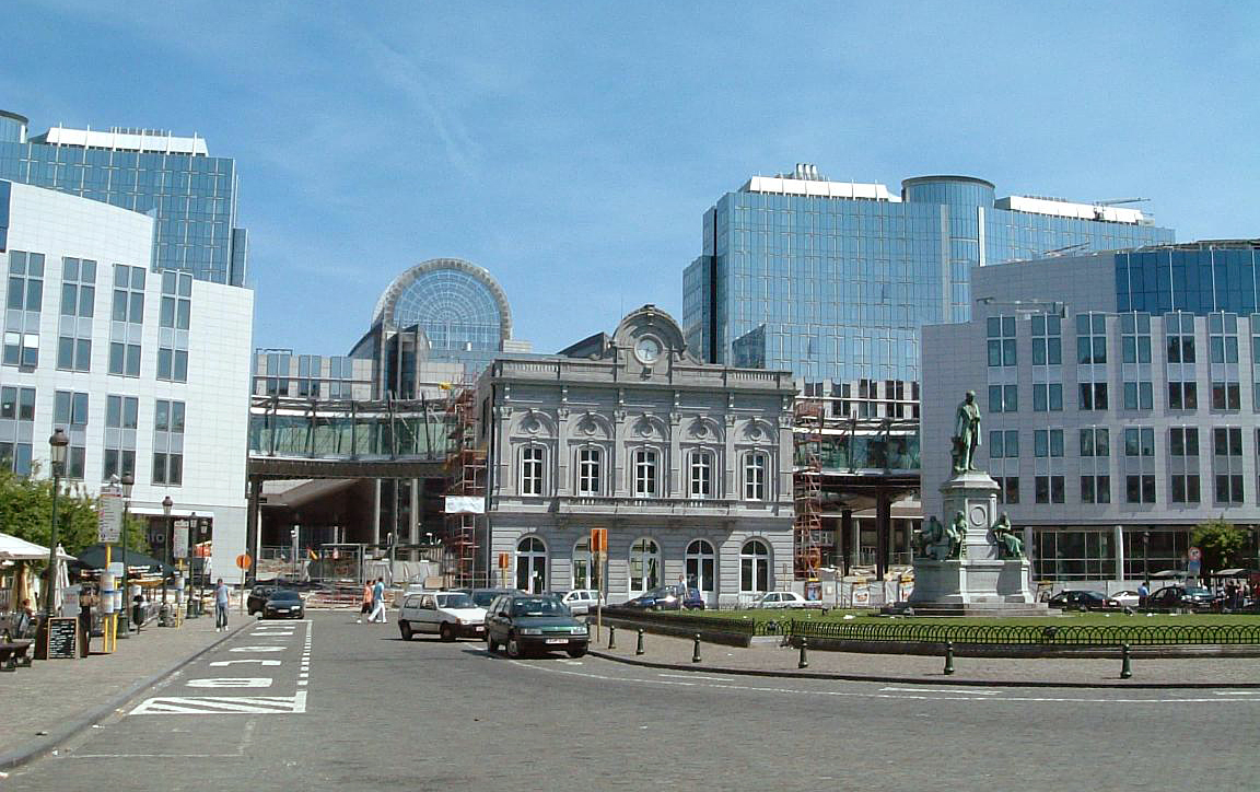 The Espace Leopold, the seat of the European Parliament in Brussels. View from the west (Luxembourg Square).